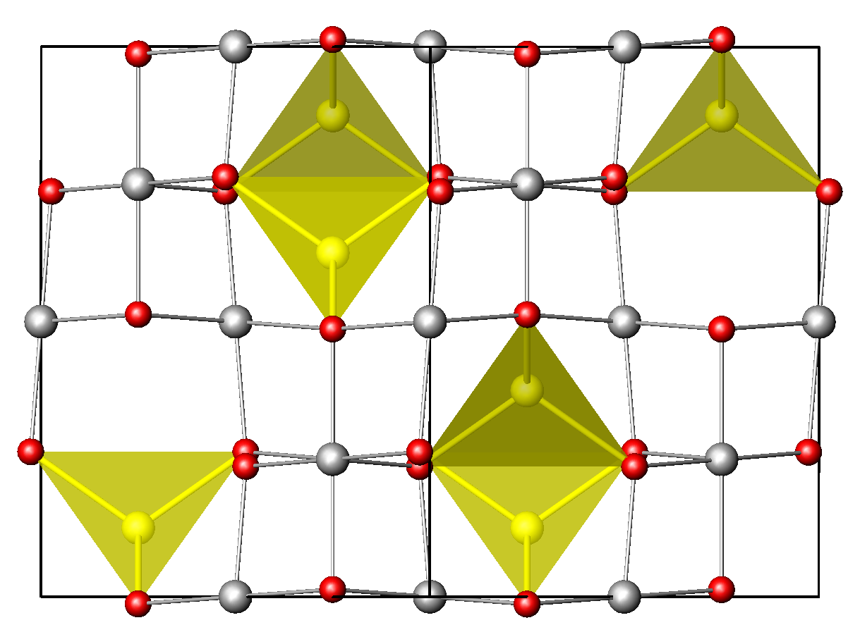 Crystal structure of the spinel MgAl2O4: view along the a+b direction. The yellow spheres represent the magnesium atoms, the gray ones the aluminium atoms and the red ones the oxygen atoms.